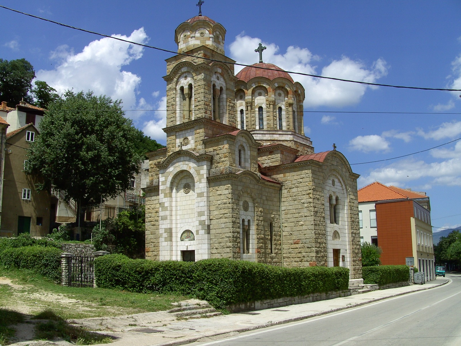 Town of Knin, Croatia